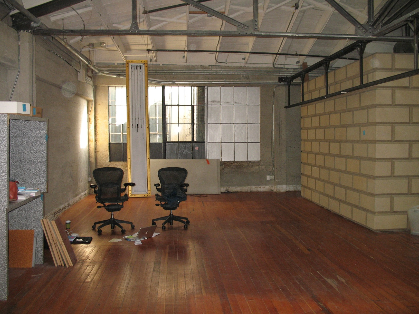 The Empty Wikimedia Foundation offices, just before movin